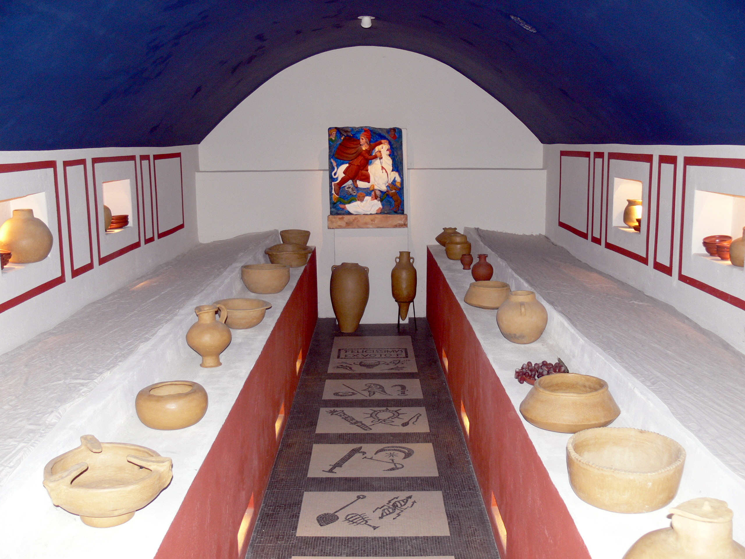 Bible museum in Nijmegen. Roman town: Reconstruction (artists impression) of a fictitious Mithras temple.